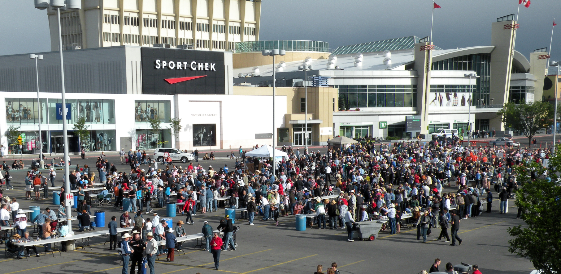 A large crowd of people at the Chinook Centre pancake breakfast during the Calgary Stampede.